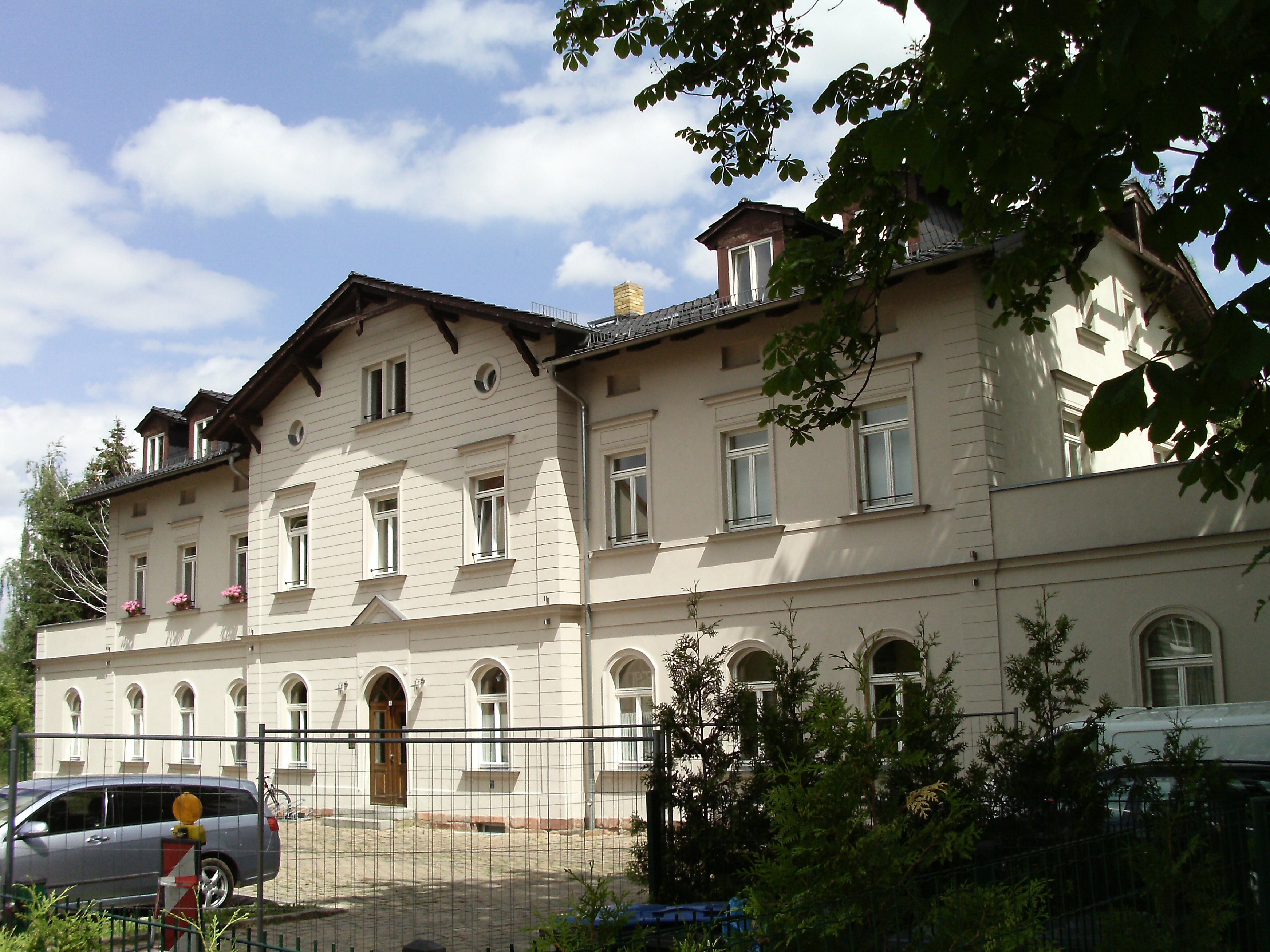 Former Zwenkau train station of the Gaschwitz-Meuselwitz railway line (Leipzig district, Saxony)